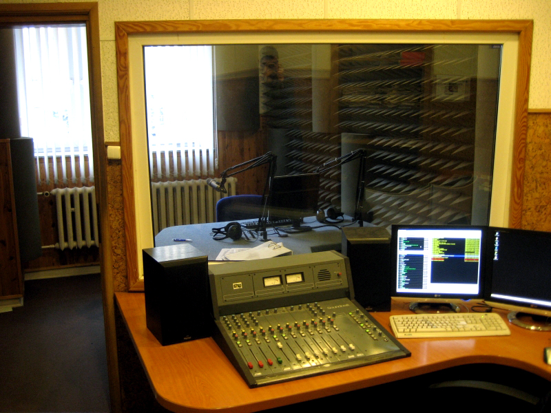 Studio Radio Afera Poznań, Poland